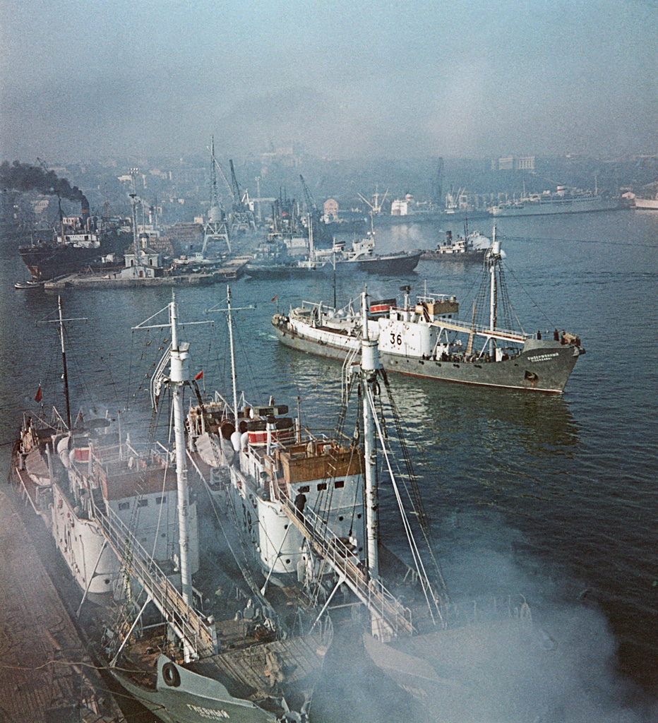 “Fleet of whalers lying up in Odessa port”. The "Soviet Ukraine" fleet of whalers lying up in Odessa port